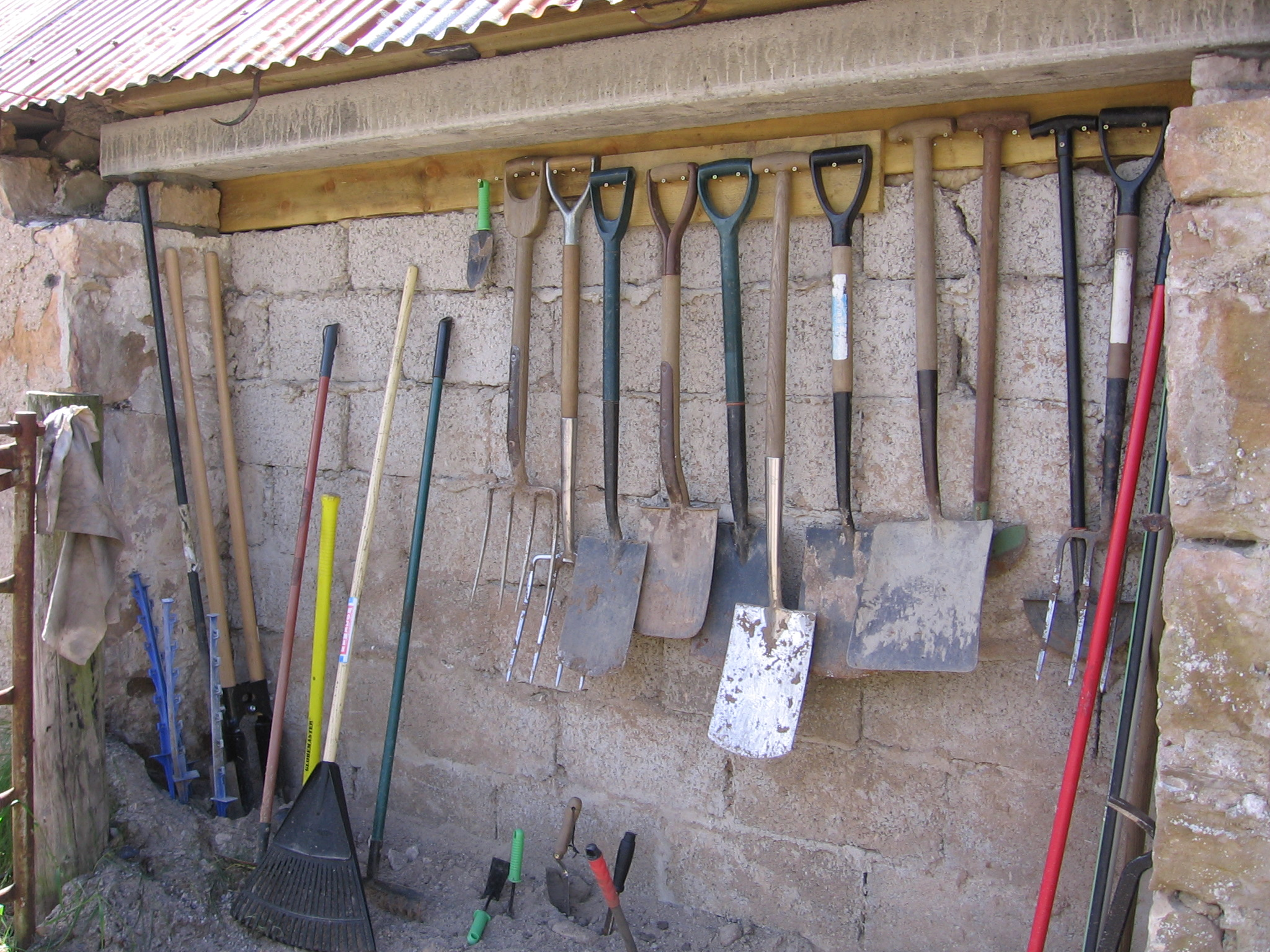 An Assortment of Garden Tools